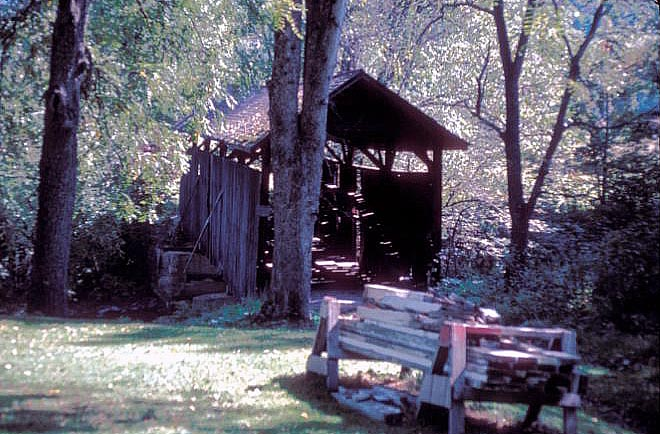 Bittenbender Covered Bridge was a historic wooden covered bridge located at Huntington Township, Luzerne County, Pennsylvania, USA, (1982 VISIT) OVER HUNTINGDON CREEK; 76’ QUEEN